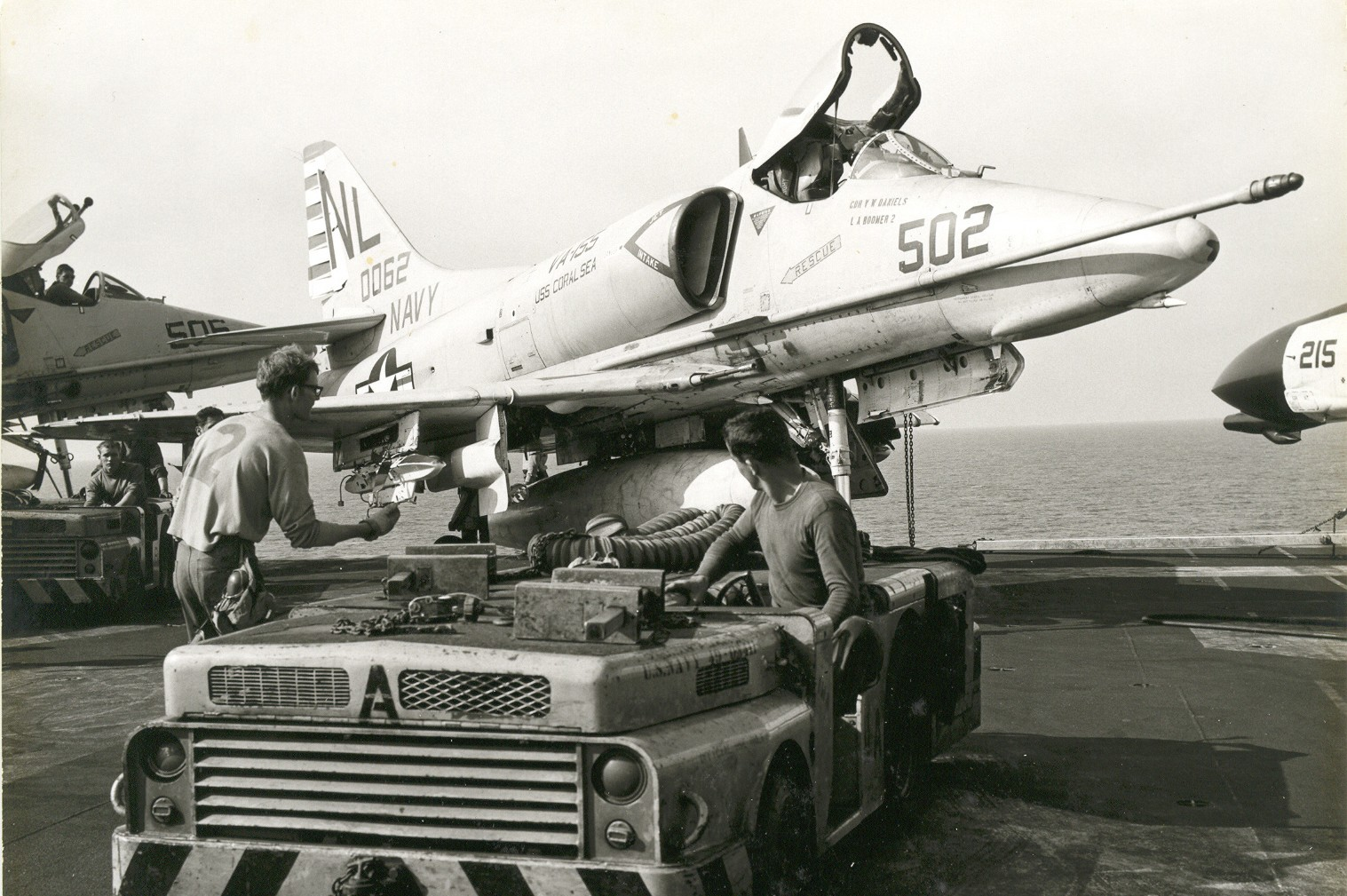 A Douglas A-4E Skyhawk (BuNo 150062) of attack squadron VA-155 Silver Foxes on the aircraft carrier USS Coral Sea (CVA-43). VA-155 was deployed as part of Attack Carrier Air Wing Fifeteen (CVW-15) (tail code "NL") to Vietnam from July 1967 to April 1968. To the right the front part of a McDonnell F-4B Phantom II of fighter squadron VF-161 Chargers is visible, in the background is another A-4E of VA-155.